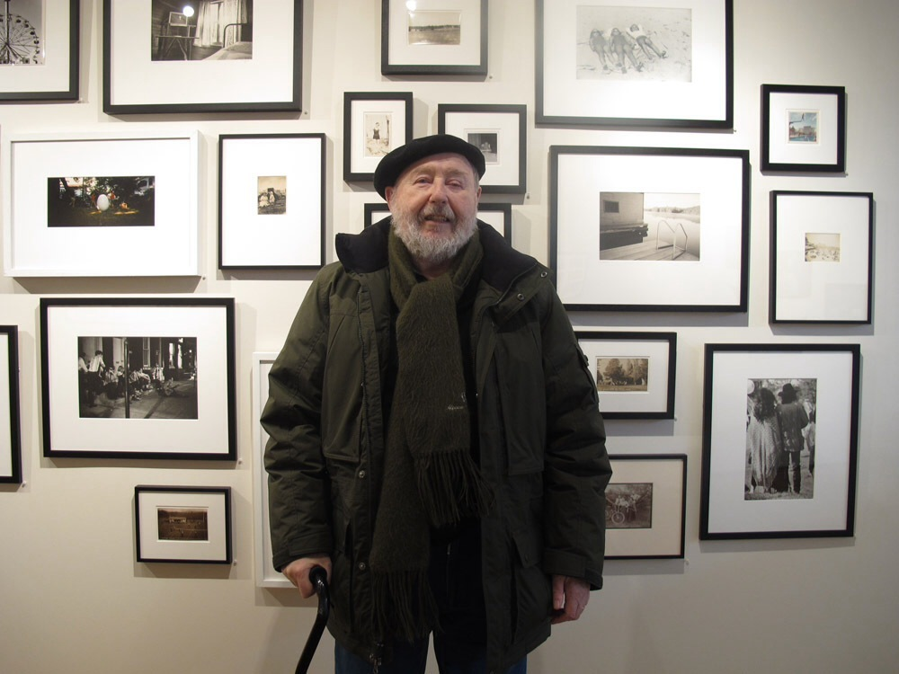 Photograph taken by Stephen Bulger at his gallery